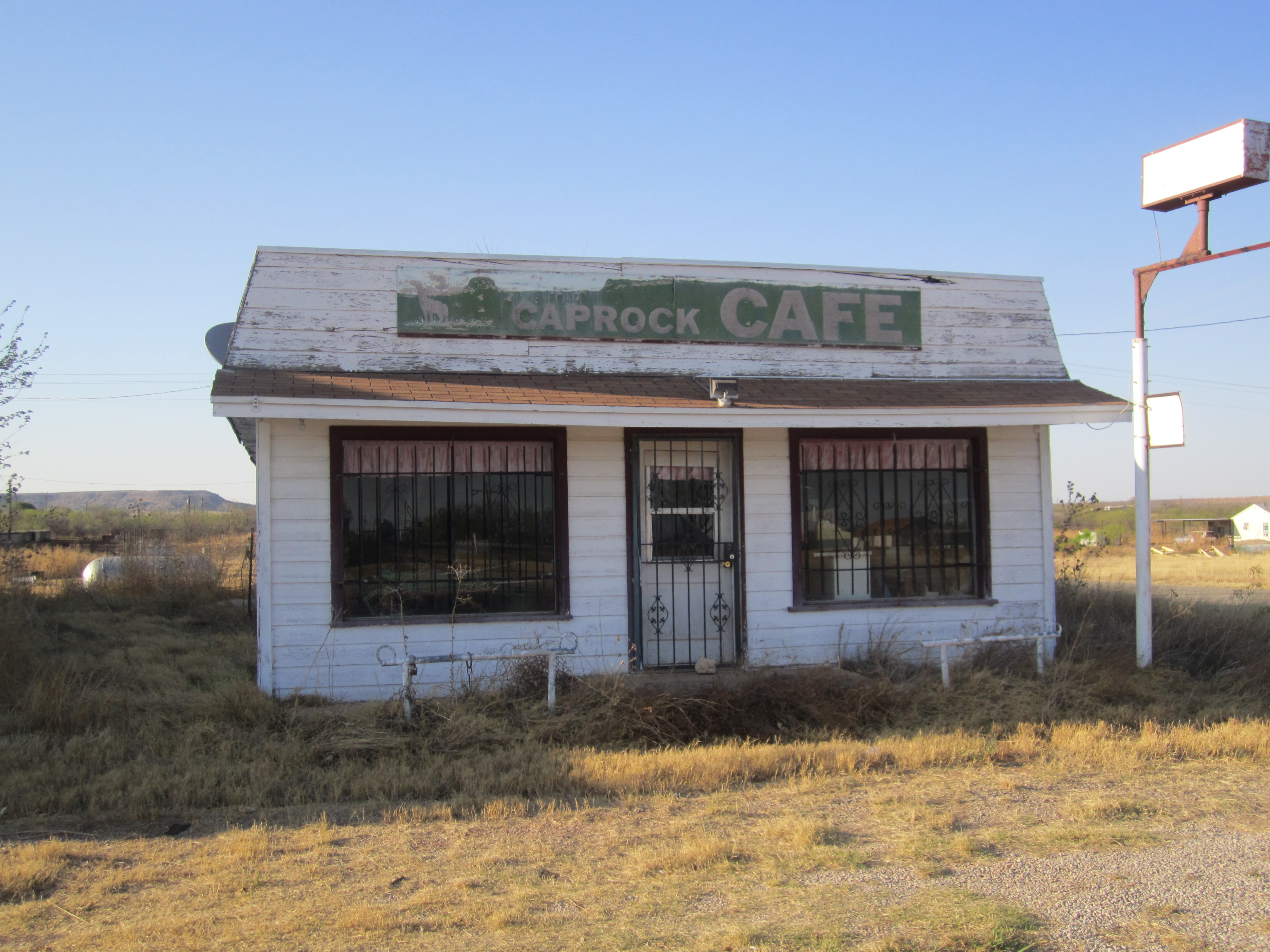 I took photo with Canon camera in Gail, TX.